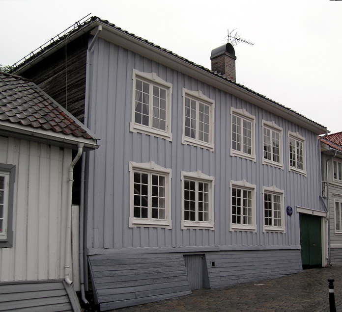 Ibsengården at Snipetorp, Skien, Norway. Henrik Ibsen lived here with his family in 1843.